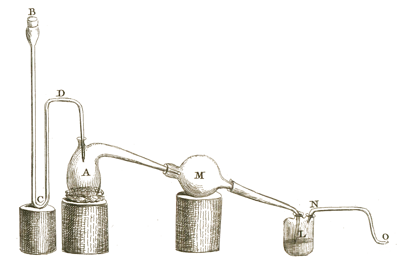 Detail (Figure 1) from plate VII of Lavoisier's Traité élémentaire de Chimie, 1789